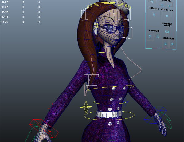 A render of Amelia from Revolution 60, demonstrating the complexity of the mesh in the head/hair compared to the body.